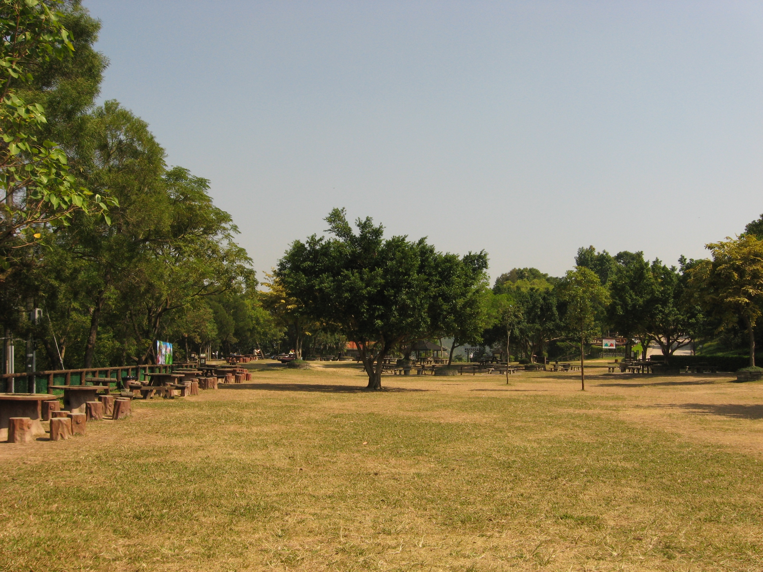 Tai Lam Country Park